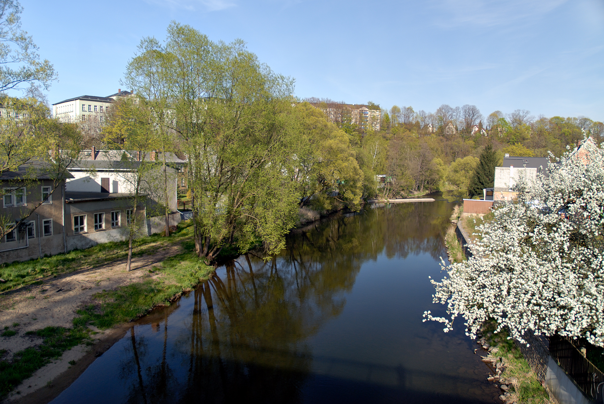 This image shows the river Zschopau in the town with the same name.